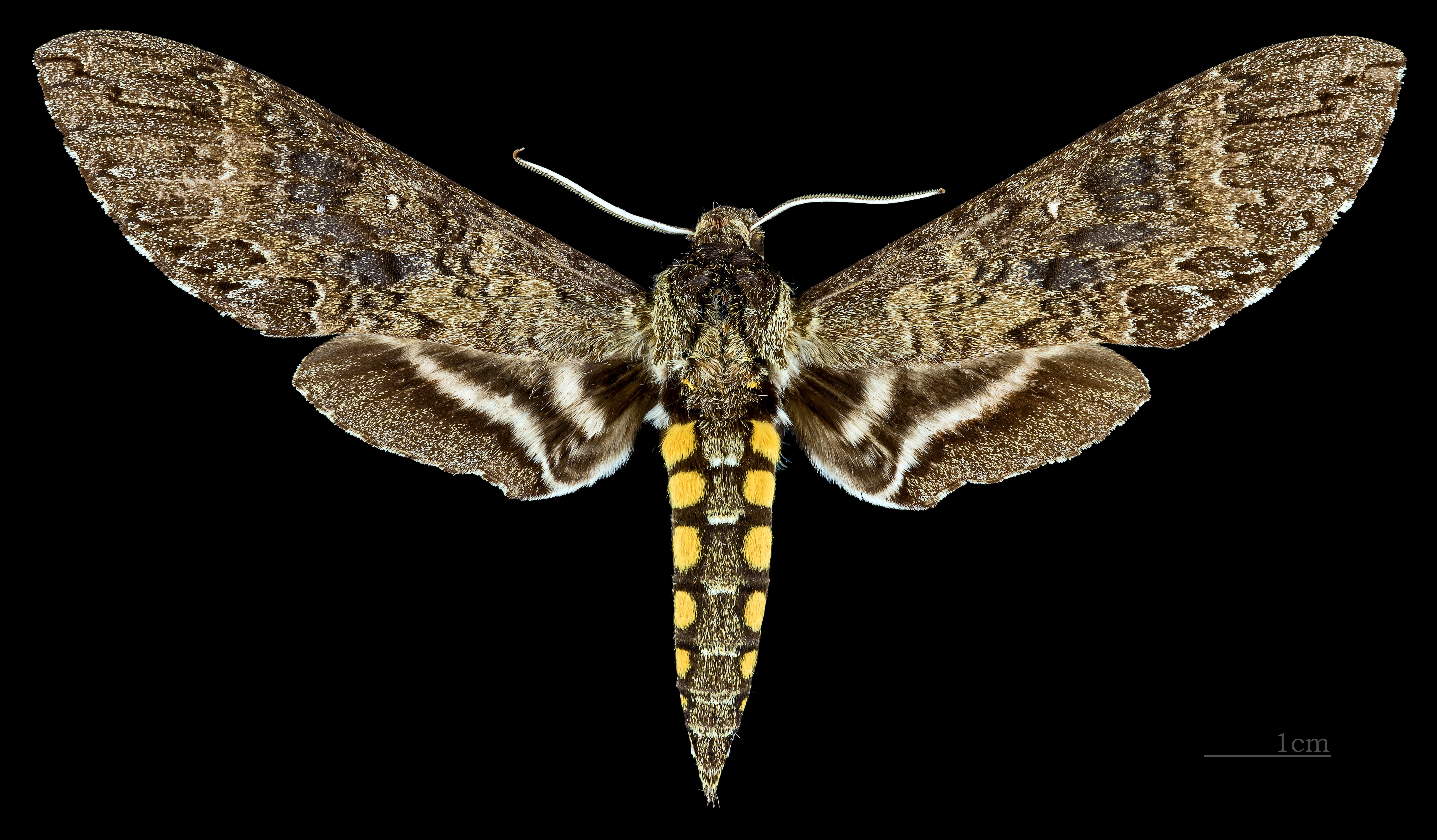 Manduca diffissa tropicalis - Dorsal side Collection of the Mathematician Laurent Schwartz